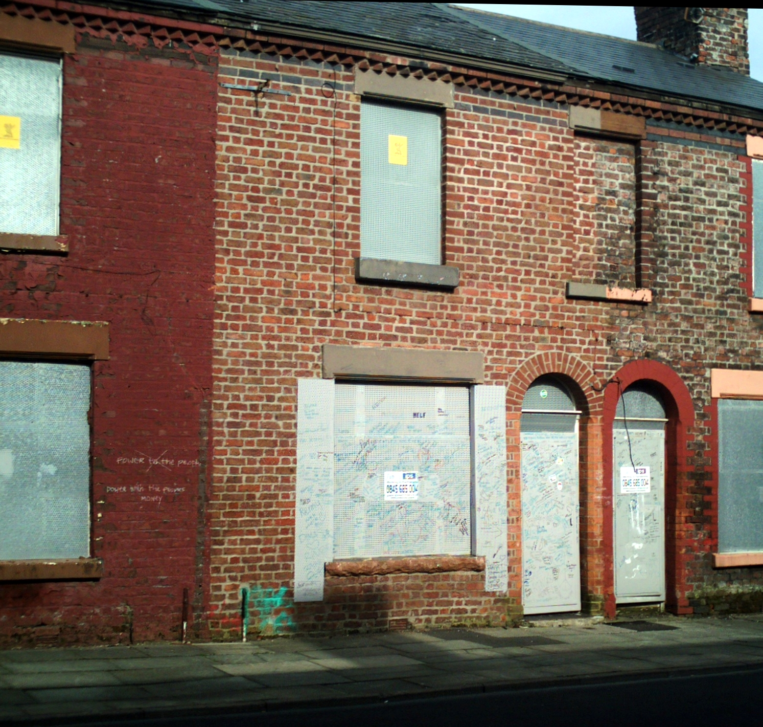 Birthplace of Ringo Starr, heavily-graffiti'd (mostly in support of retention). Starr only lived here for his first three years and has no memories of it.